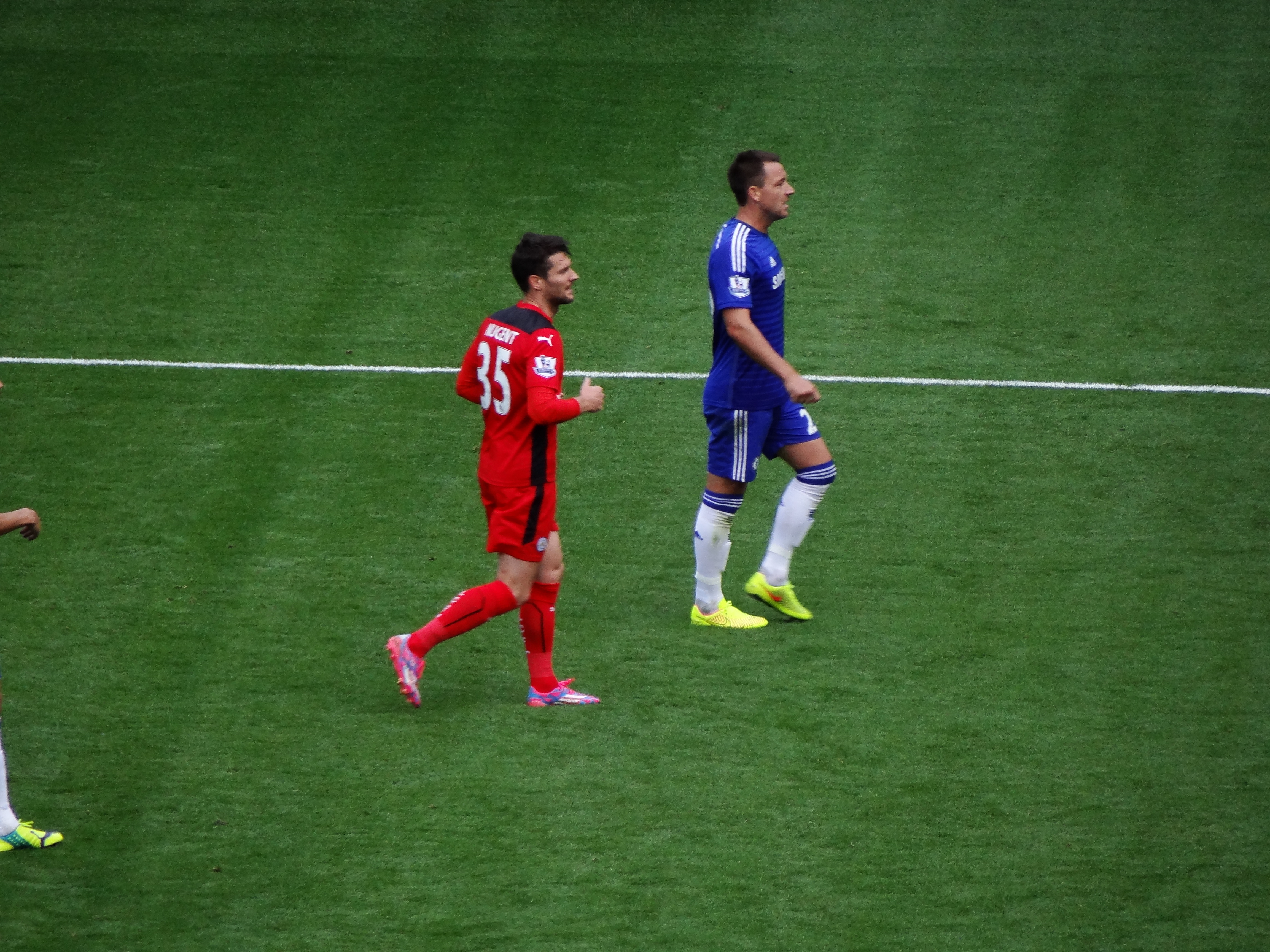 David Nugent of Leicester City